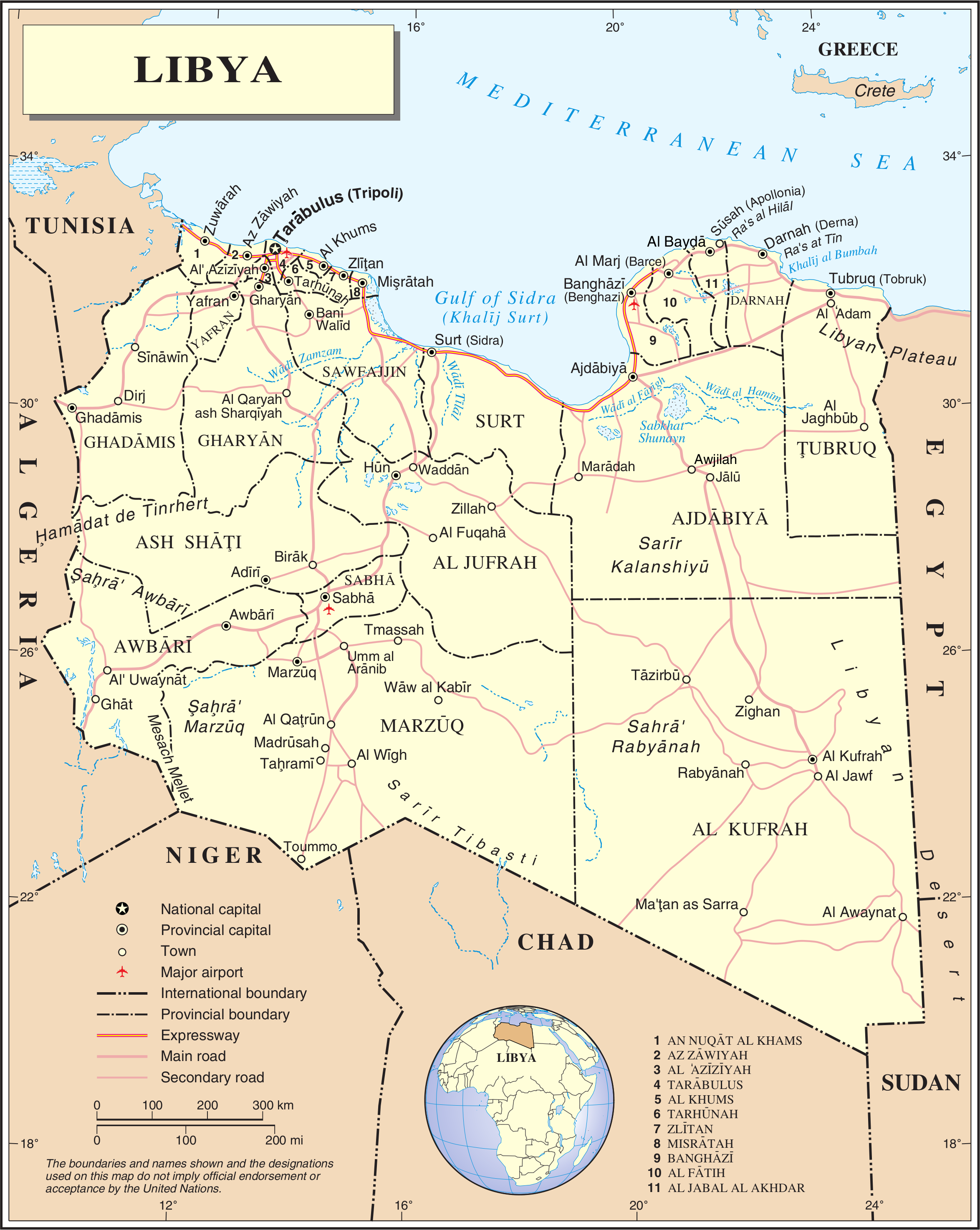 United Nations Map of Libya, with cities, roads, and the current twenty-two Districts or Shabiyah of Libya.